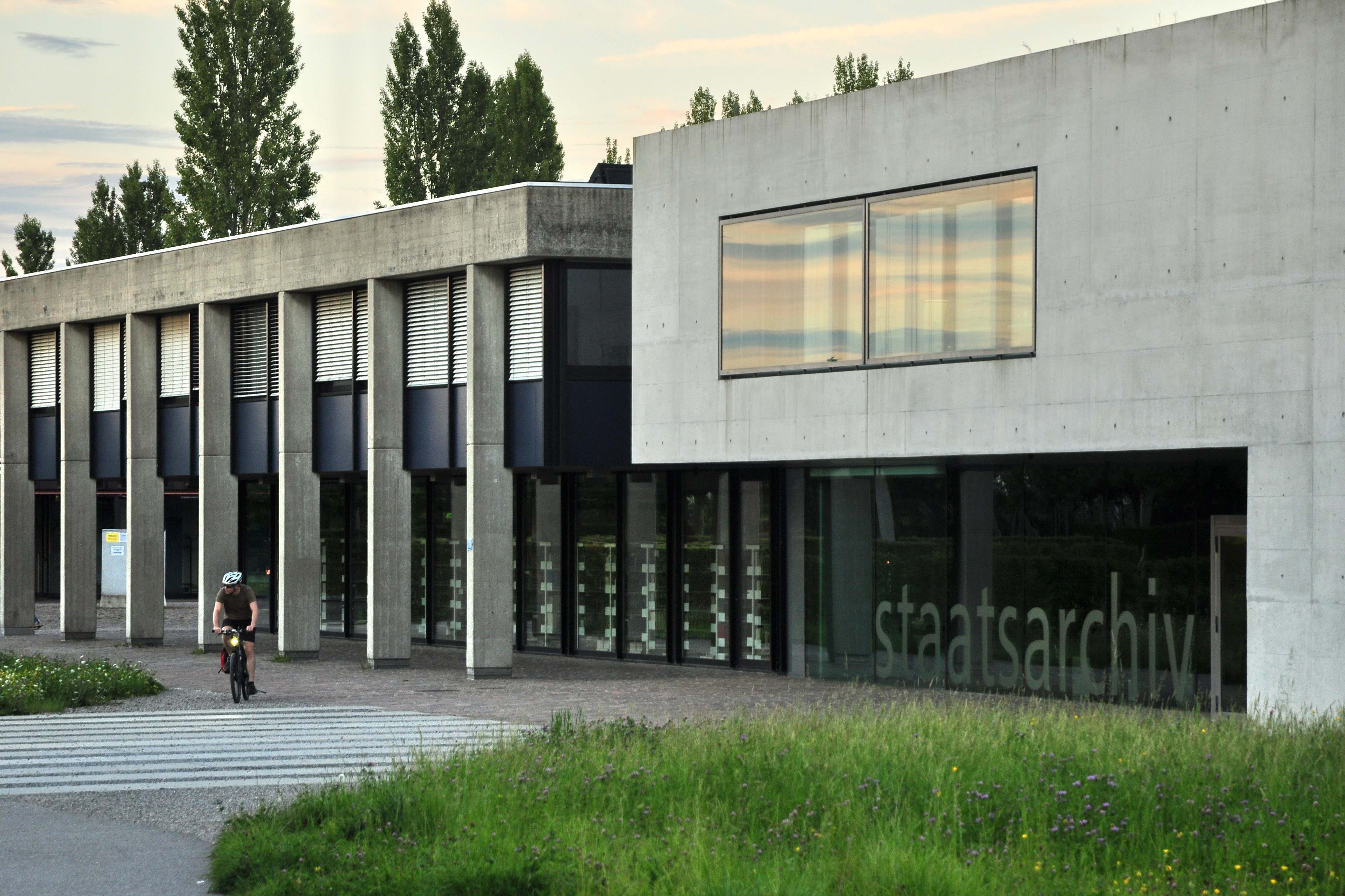 Zürich-Oberstrass : Staatsarchiv (Archives of the Canton of Zürich) situated at the Irchel campus of the University of Zürich.